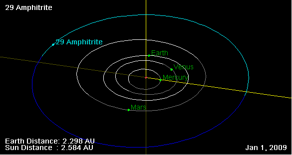 29 Amphitrite orbit, and his position on 01 Jan 2009 (NASA Orbit Viewer applet)